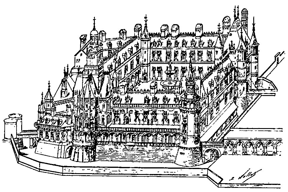 Detail (Figure 36) from page 155 of Palustre's L’Architecture de la Renaissance, 1892